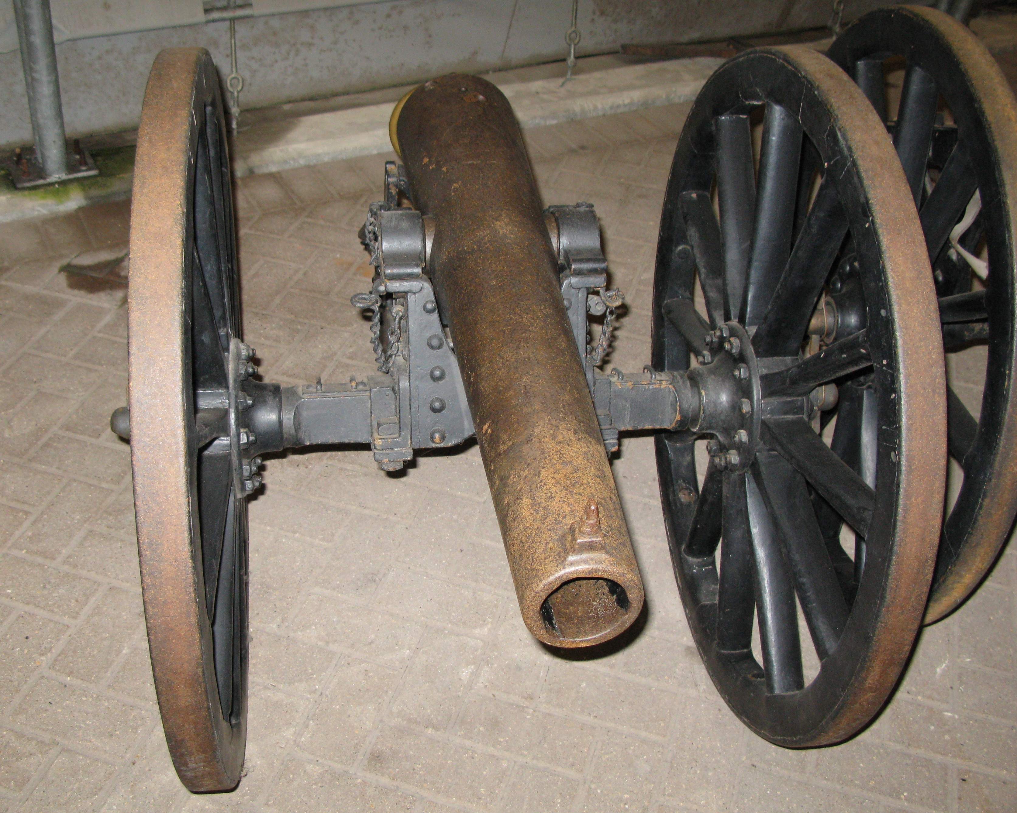 RML 7 pounder steel gun from 1885. Now part of the collection at fort nelson previously owned by sea scout unit 118